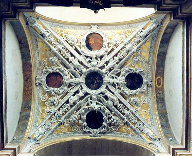 Ss. Peter and Paul church in Kraków, southern aisle's vault